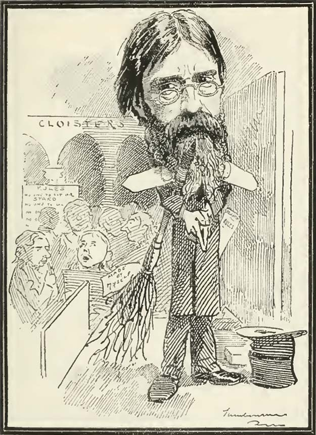 "No one to sit or stand" can be read as "Rules" -- an allusion to Herkomer's statement "Stand by your work", as well as to his authoritarian way to run his school. The broom tagged „made by myself“, the collection of rules in professor's left pocket and the beggar's hat complete the criticism..